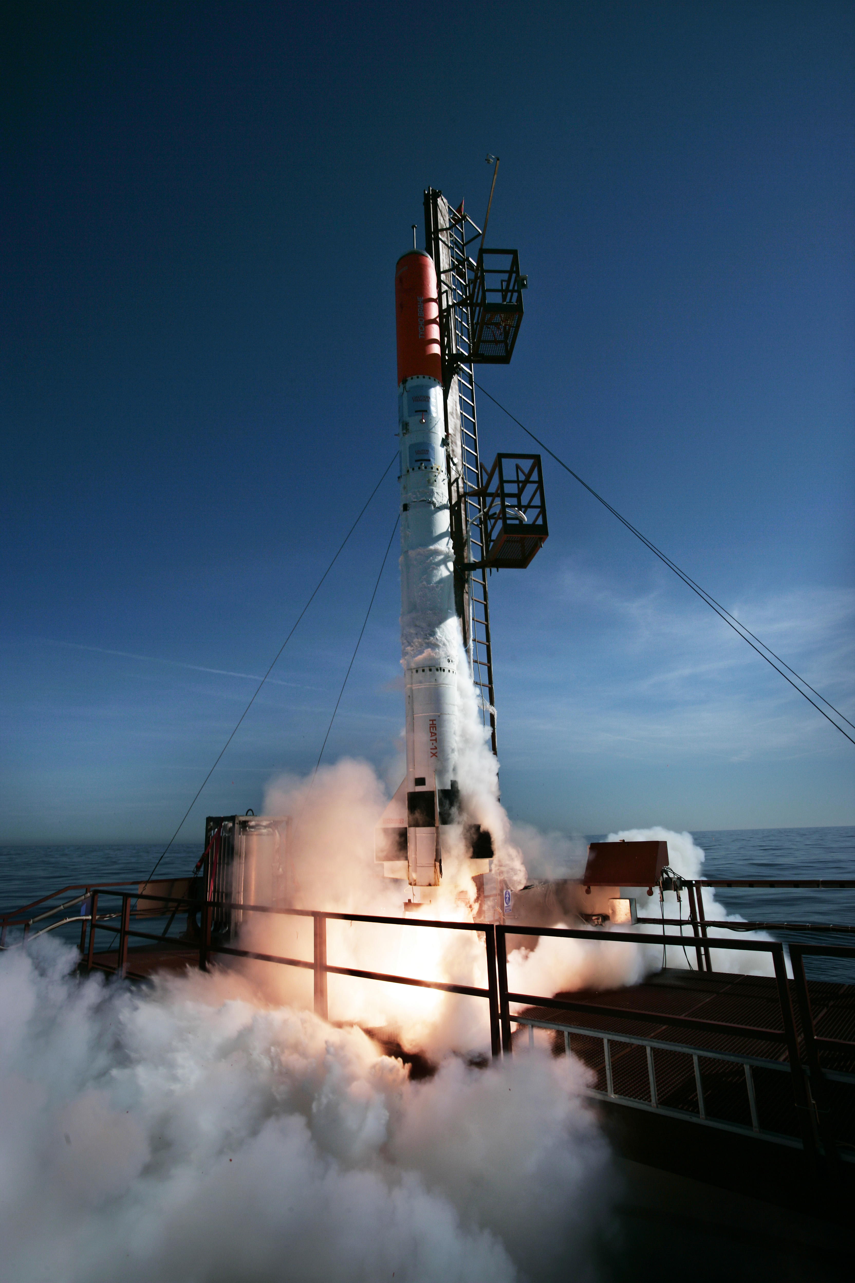 HEAT 1X - TYCHO BRAHE - second attempt successful